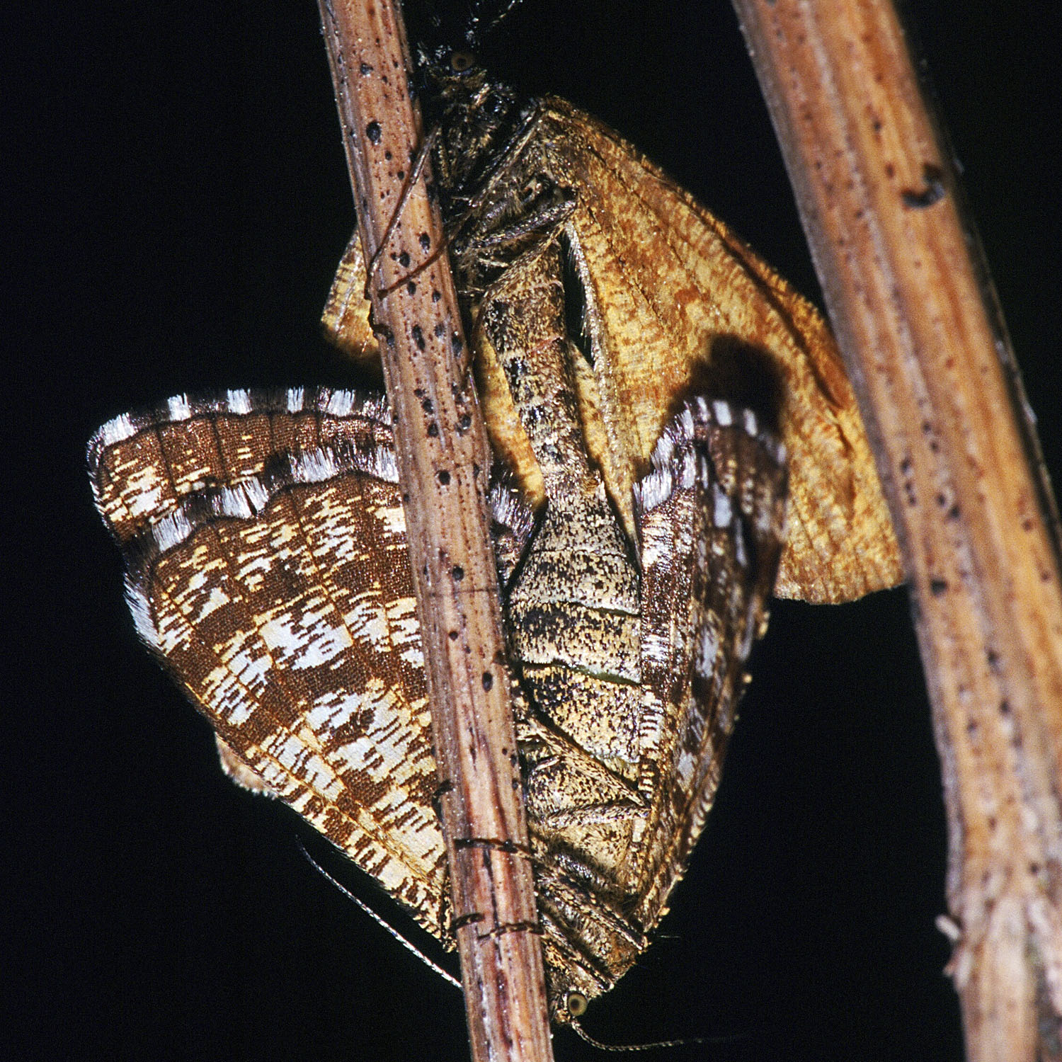 Common Heath, Ematurga atomaria (Linnaeus, 1758), Many thanks to Jürgen Rodeland from for determination!